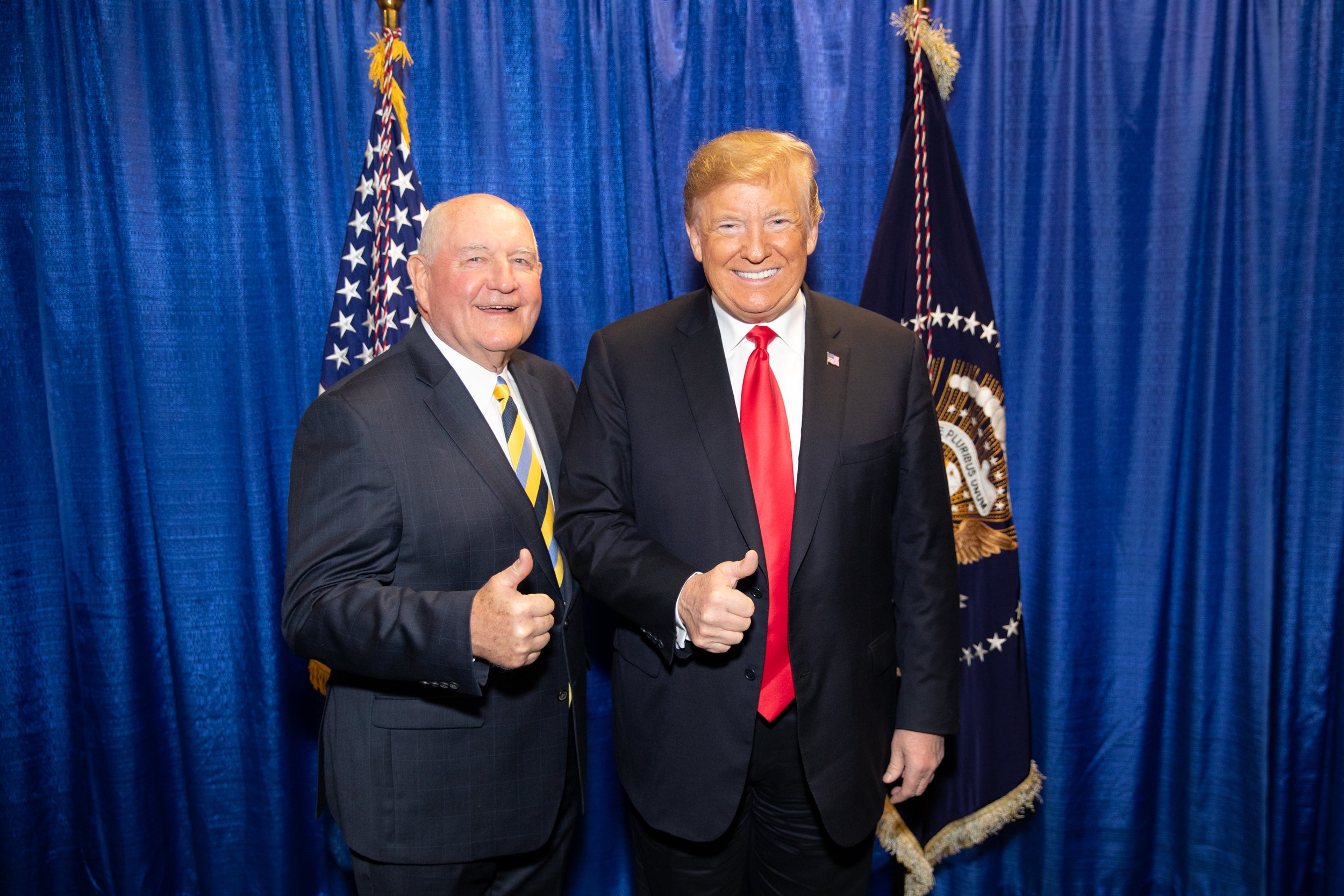 Agriculture Secretary Sonny Perdue and President Donald Trump at the 91st National FFA Convention & Expo in Indianopolis Indiana on Oct 27, 2018.Official White House photo by Shealah D. Craighead. Used with permission. This photograph is provided by THE WHITE HOUSE as a courtesy and may be printed by the subject(s) in the photograph for personal use only. The photograph may not be manipulated in any way and may not otherwise be reproduced, disseminated or broadcast, without the written permission of the White House Photo Office. This photograph may not be used in any commercial or political materials, advertisements, emails, products, promotions that in any way suggests approval or endorsement of the President, the First Family, or the White House.